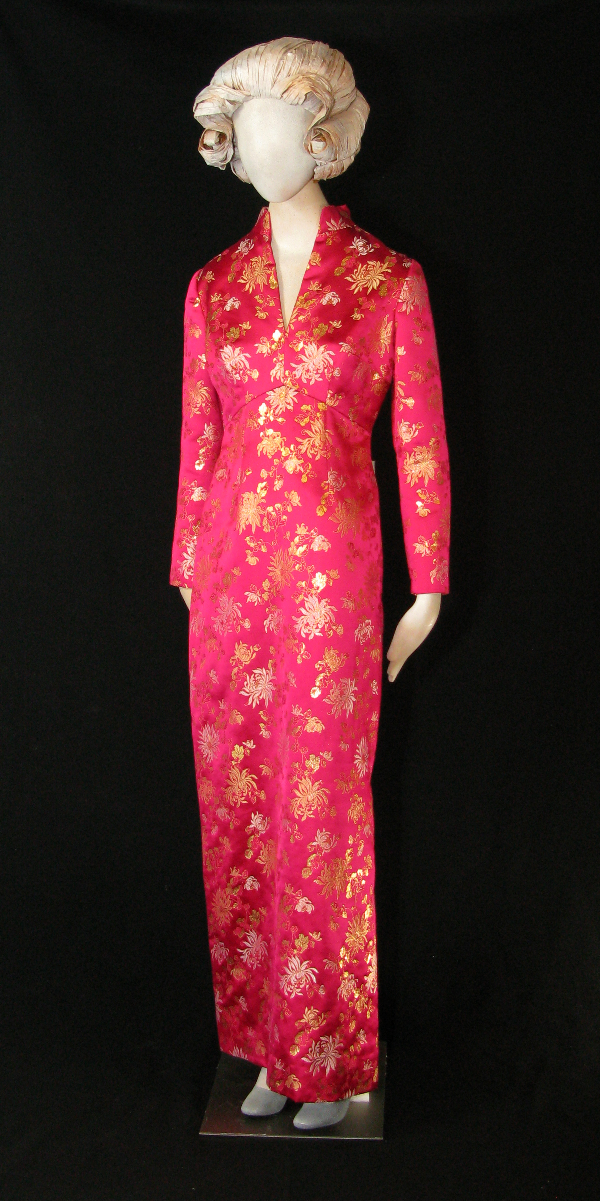 A brocade gown designed by Frankie Welch for First Lady Betty Ford. The dark pink gown with gold embroidery through features an “oriental” fashion with high neck at the back, a v-neck in front, long sleeves, and a zipper.